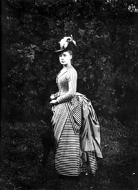 Twenty-two-year-old Miss E. Alice Austen poses in her Sunday best - a smart overskirt, and a hat decorated with white lilacs. She holds a parasol and a silver change purse. Photo taken in June 1888 by Captain Oswald Müller.